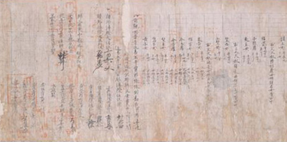 Inventory of Kanzeon-ji (観世音寺資財帳). Part of one of three scrolls, ink on paper: 29.0 cm × 581.5 cm (11.4 in × 228.9 in), 29.0 cm × 936.0 cm (11.4 in × 368.5 in), 29.0 cm × 682.5 cm (11.4 in × 268.7 in). The scrolls have been designated as National Treasure of Japan in the category ancient documents.